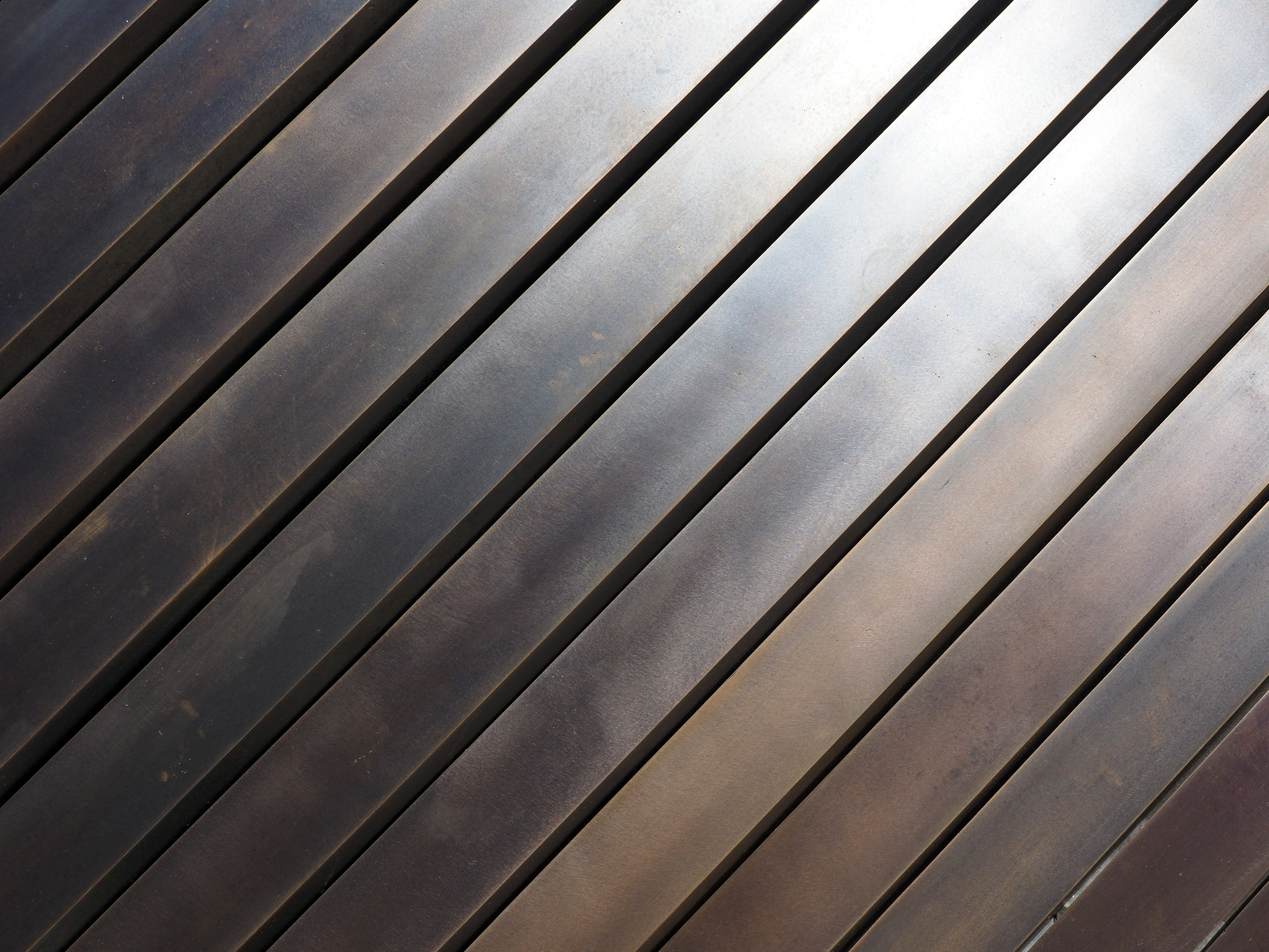 Blank panels to record future deployments on the Australian Peacekeeping Memorial